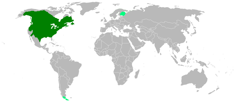 Castor canadensis distribution:Dark green: nativeLight green: introduced